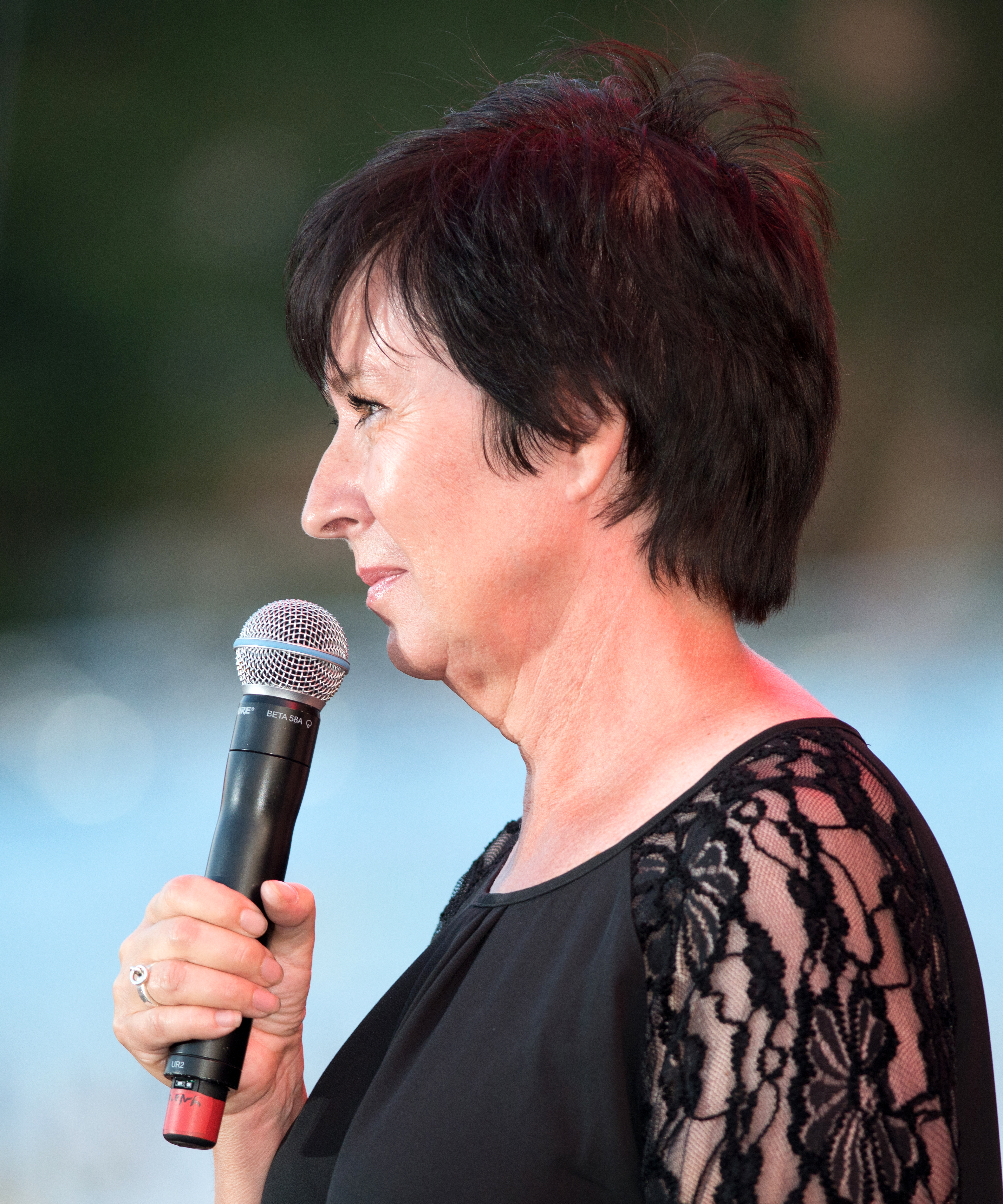 Mona Sahlin July 2014